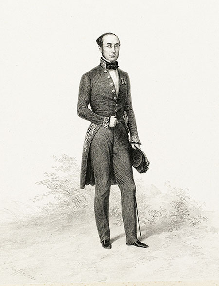 Frédéric Le Play, young.